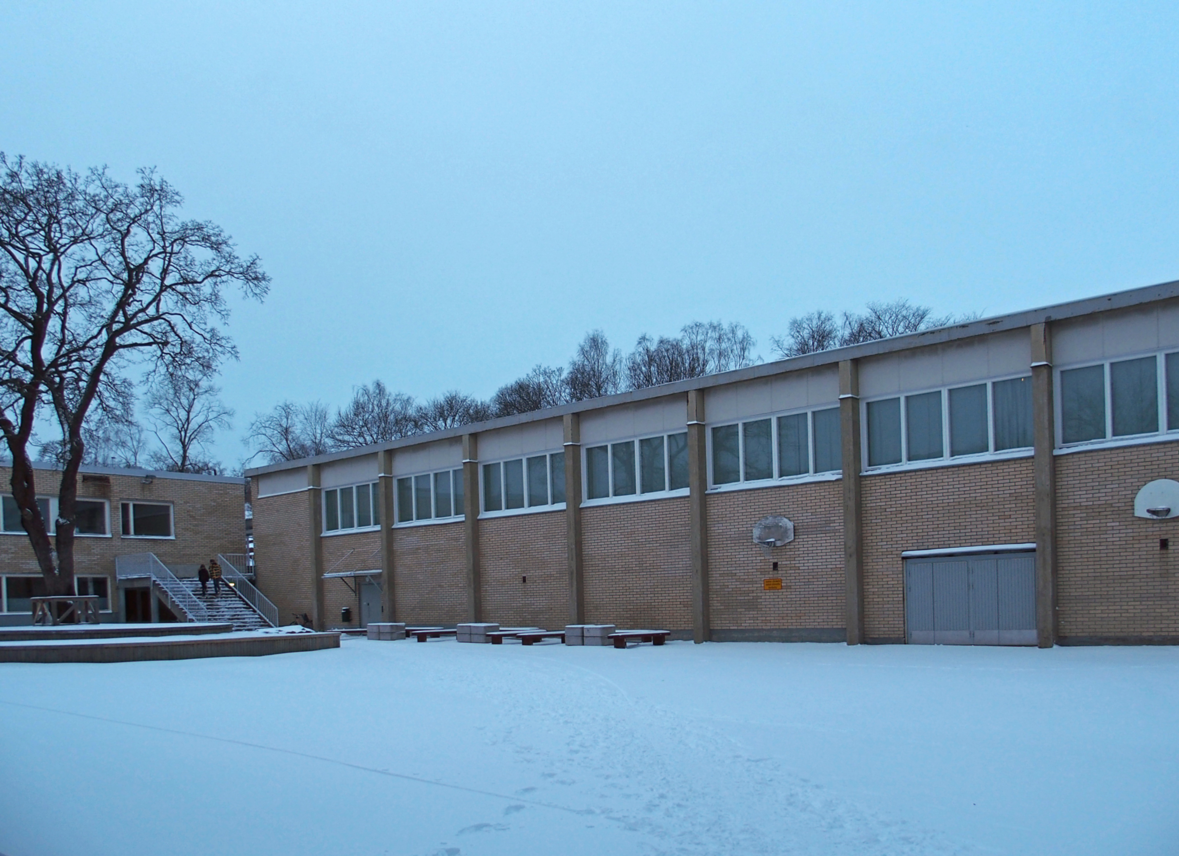 Indoor sports arena between Samppalinna hill and Itäinen Pitkäkatu street, Turku, Finland, January 2015